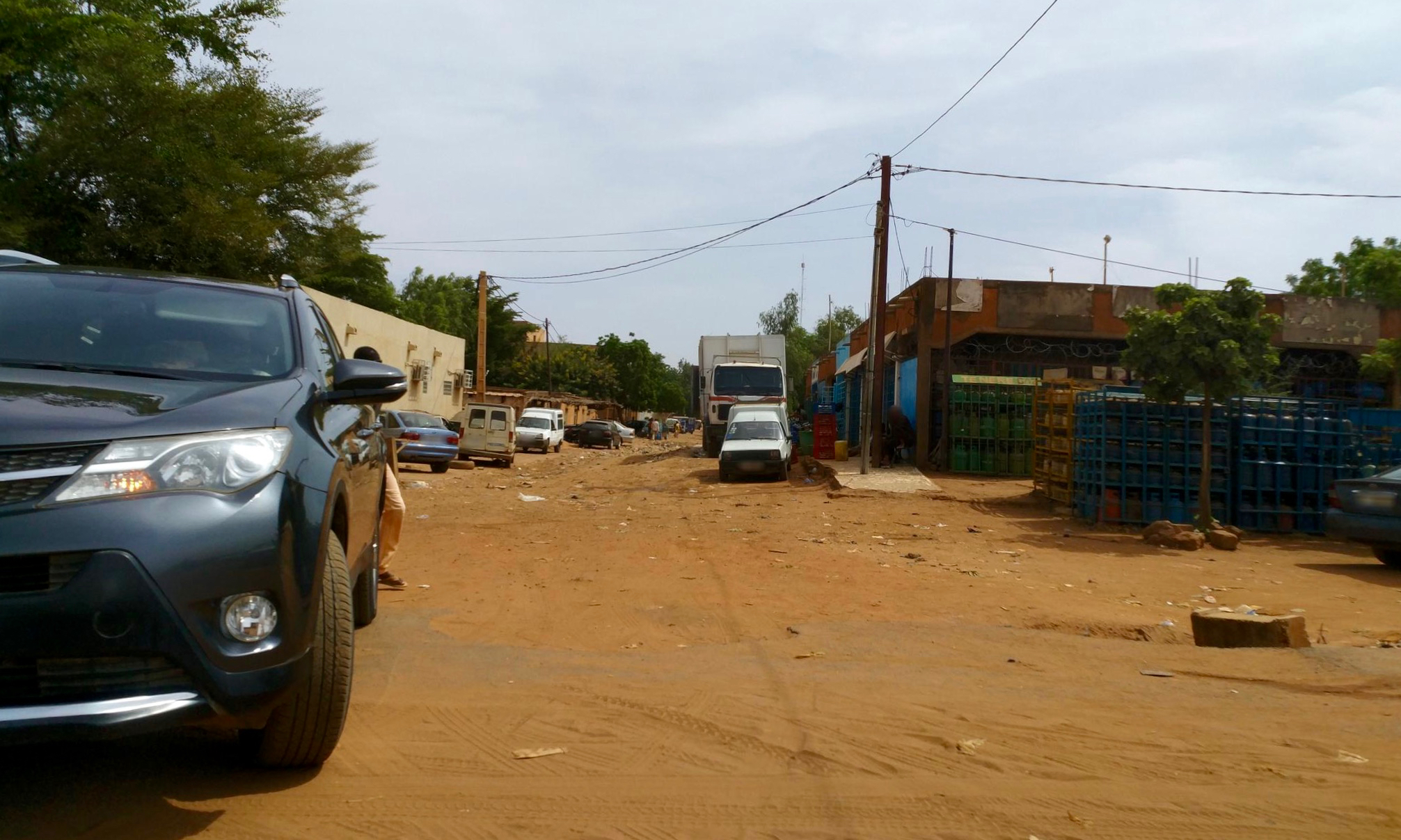 Rue YN 211 in Yantala Haut, Niamey.